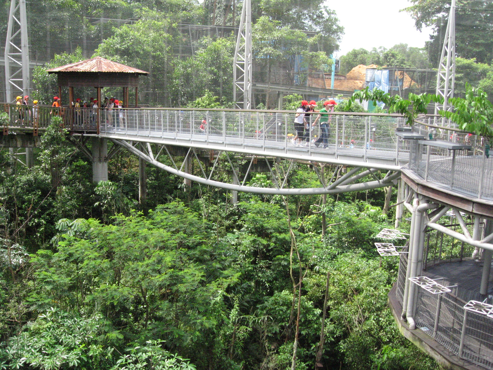 Jurong BirdPark, Singapore. Taken by Terence Ong in November 2006.